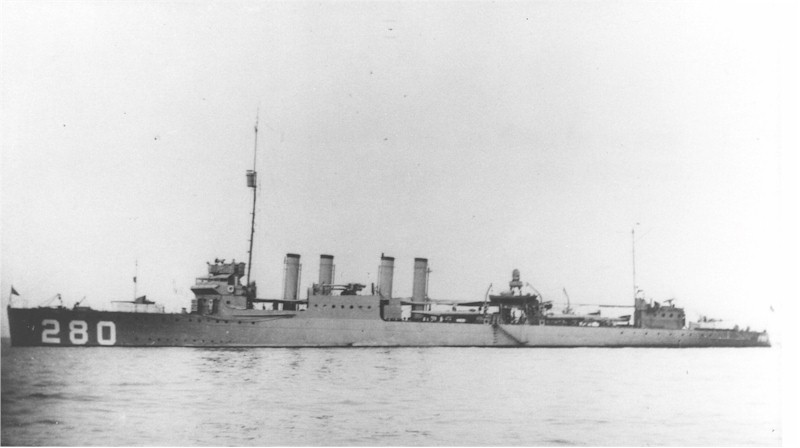 The U.S. Navy destroyer USS Doyen (DD-280), circa in 1919-1922.